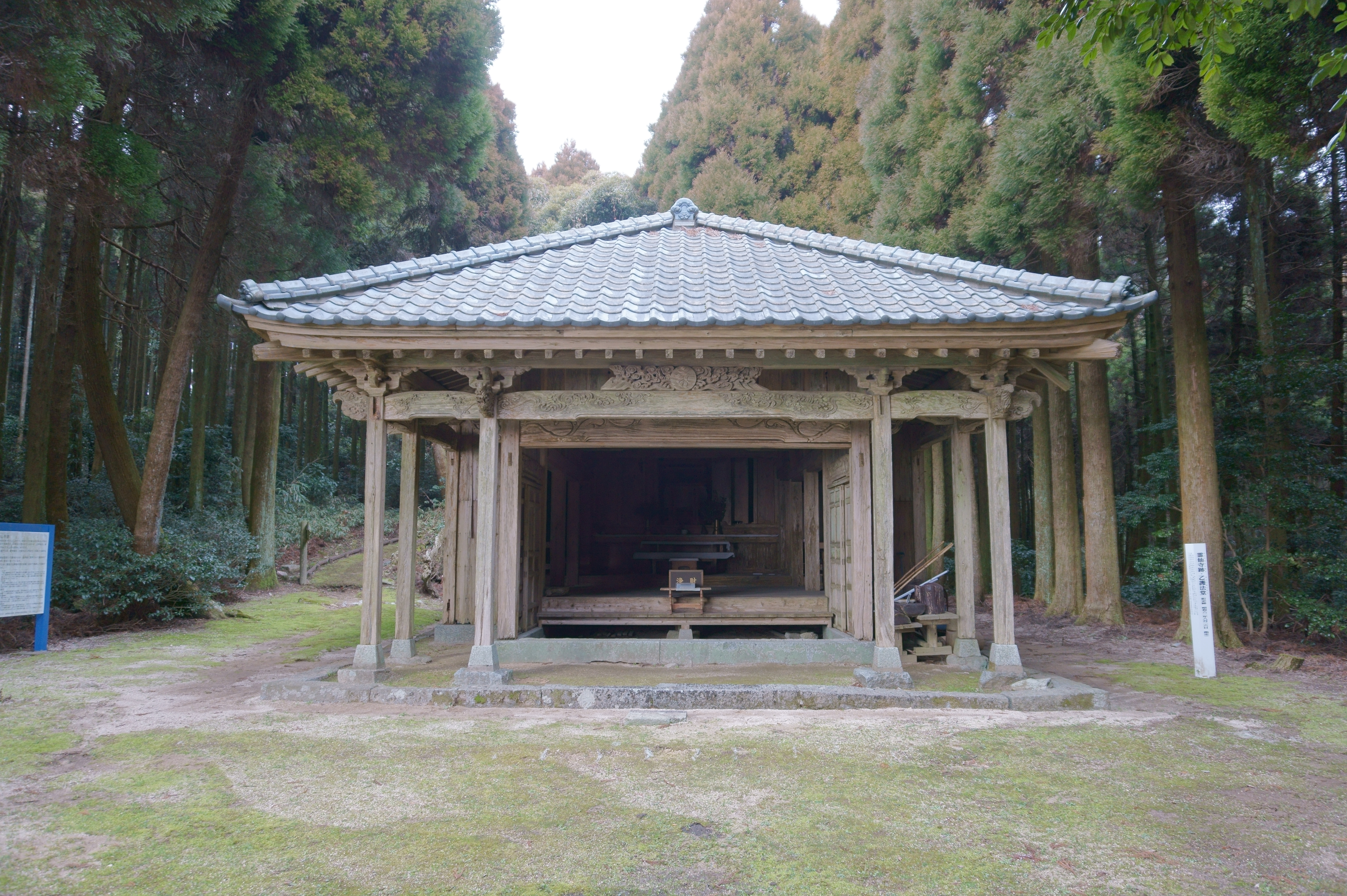 Otogo-hōdō hall at former Ryōsen-ji Temple site, in Yoshinogari town, Saga prefecture.